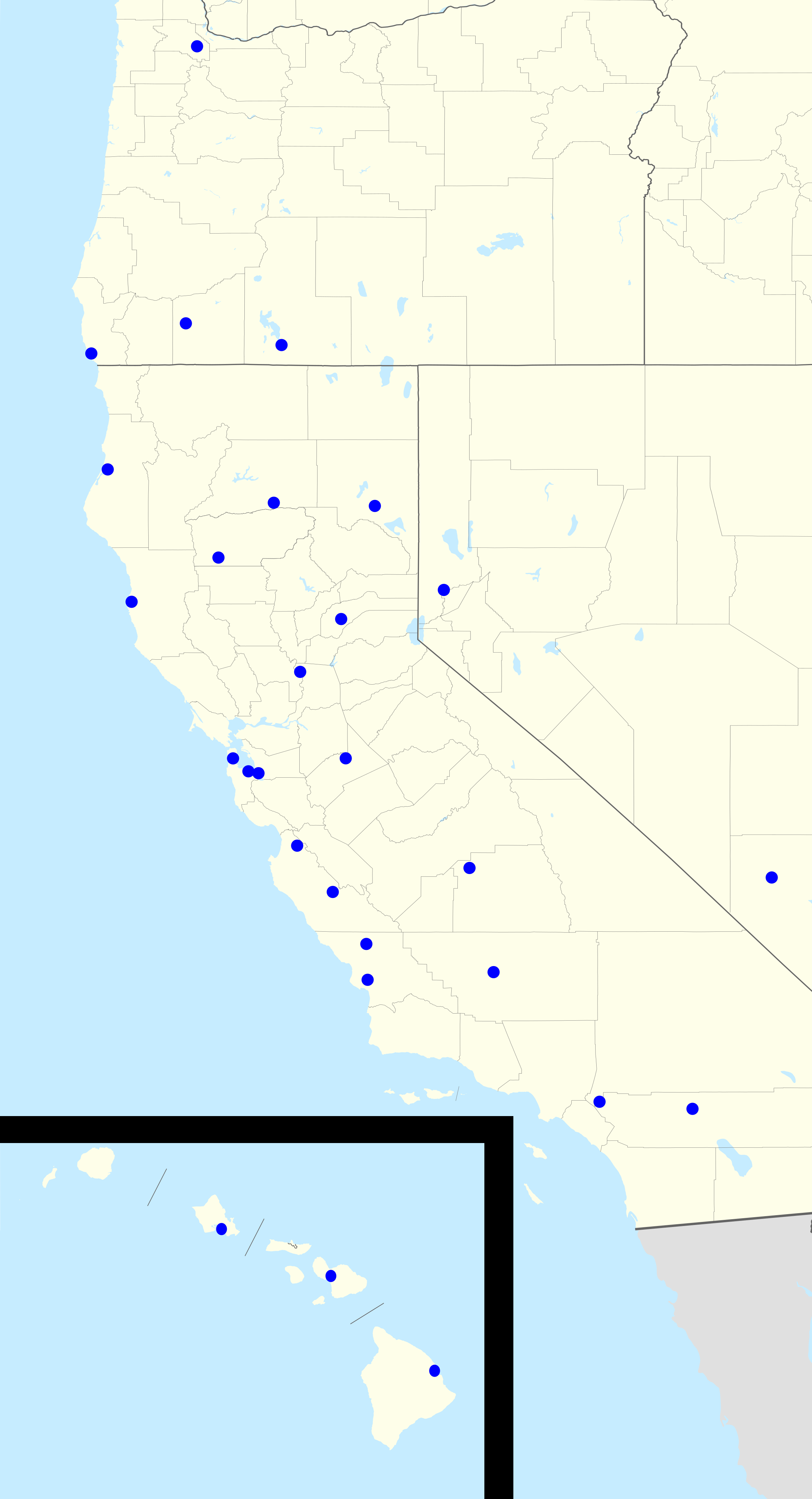 San Francisco 49ers Radio Network: map of radio affiliates.